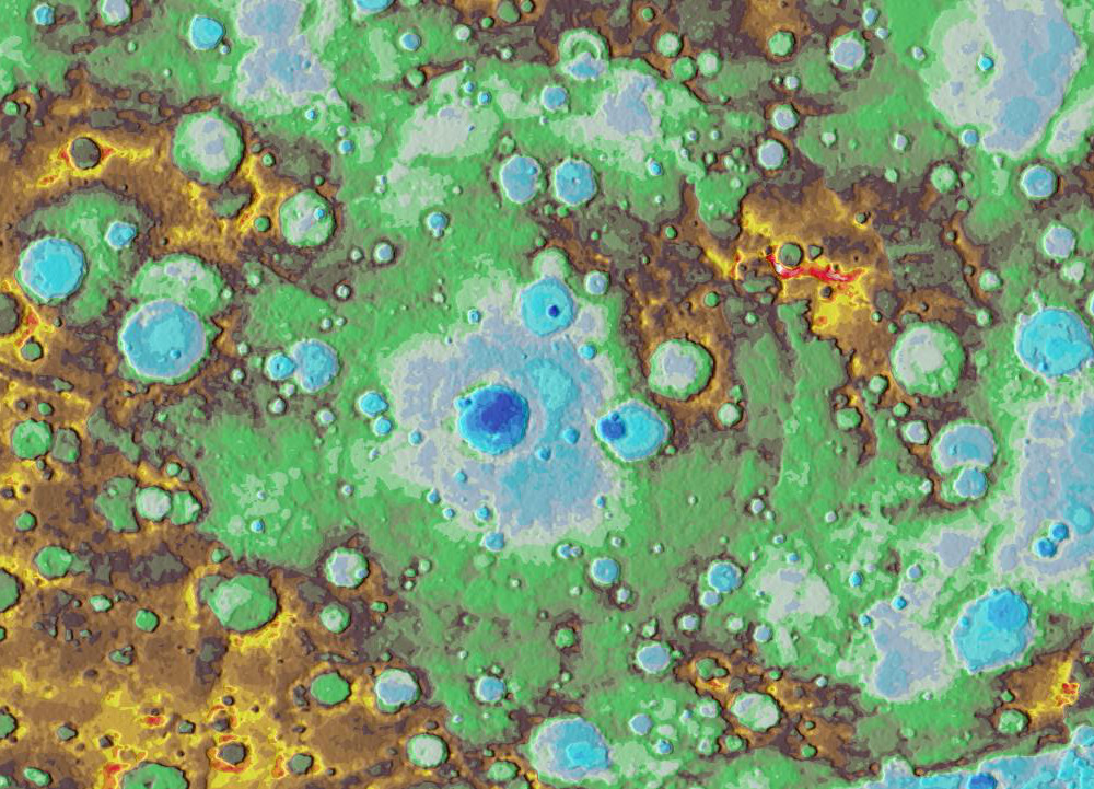 Topographic map of Lennon-Picasso Basin on Mercury. Blue is low and red is high.